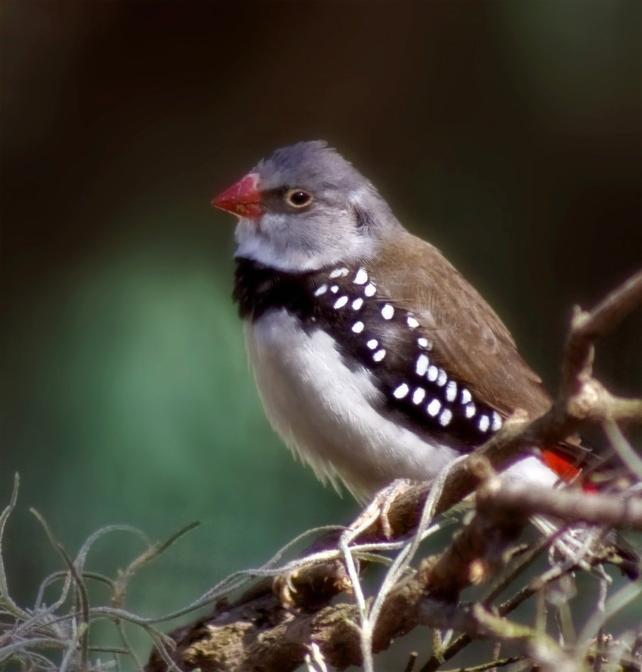 A Diamond Firetail at Auburn Botanical Gardens, New South Wales, Australia.